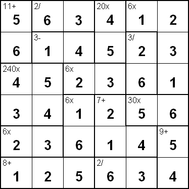 solution KenKen problem grid. Drawn by SGBailey from Data published in The Times 2008-03-22.